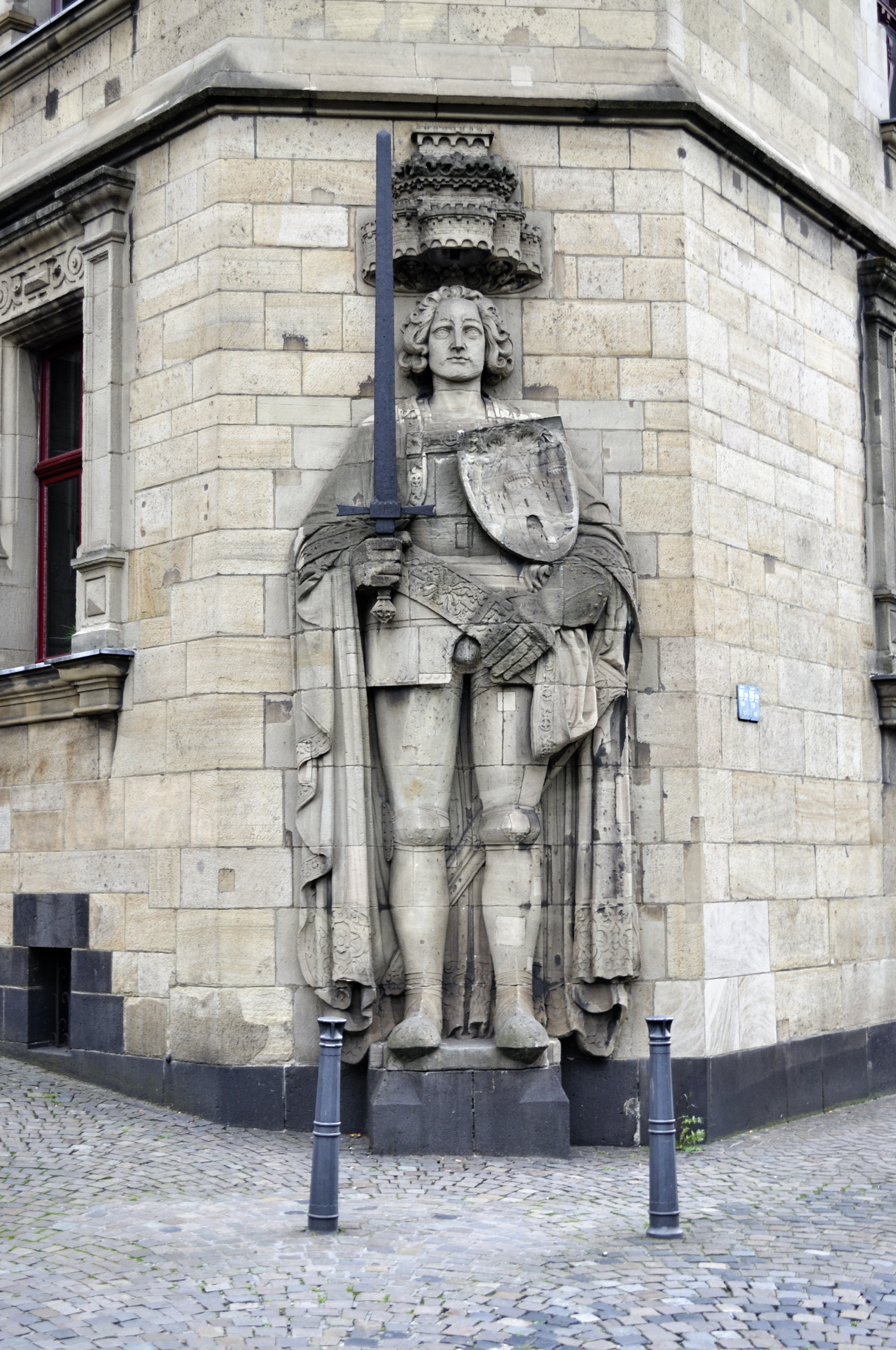 Picture taken in Duisburg while summer meetup.